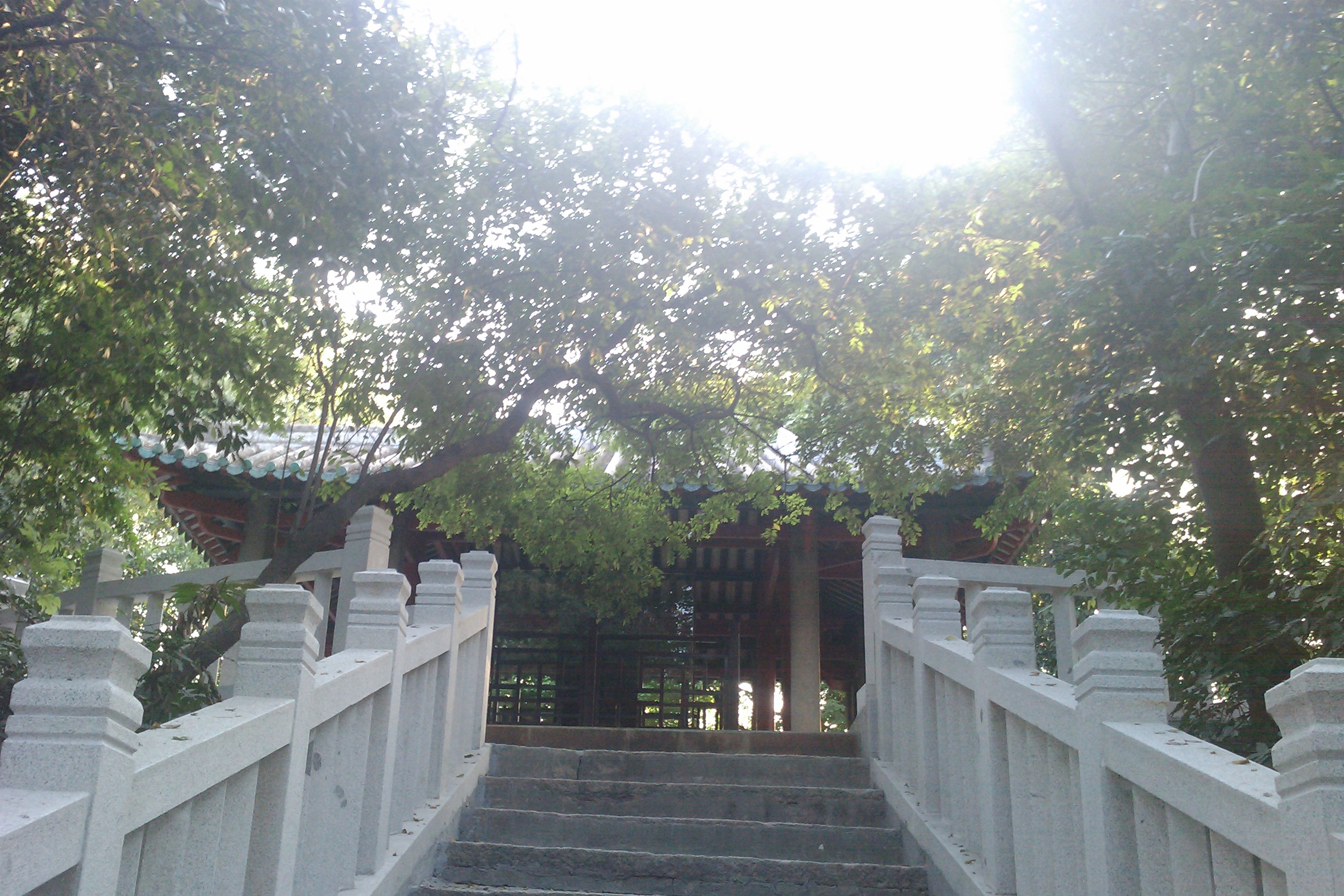 Nam Hoi(Nanhai) King Temple in Canton, China.